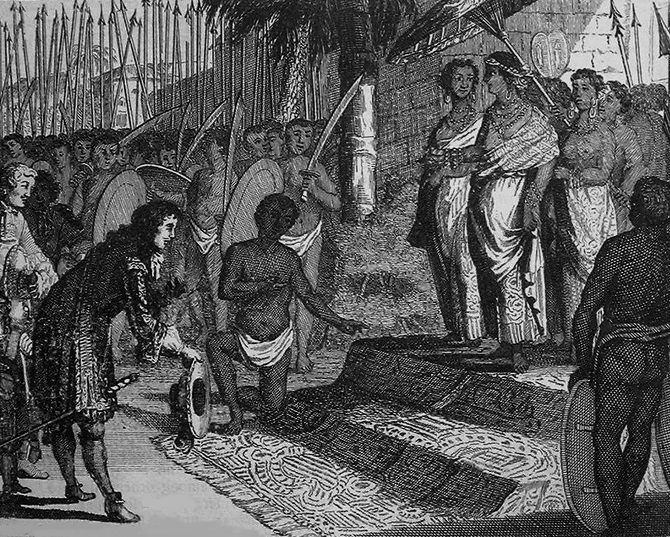 Johan Nieuhof's audience with the Queen of Quilon